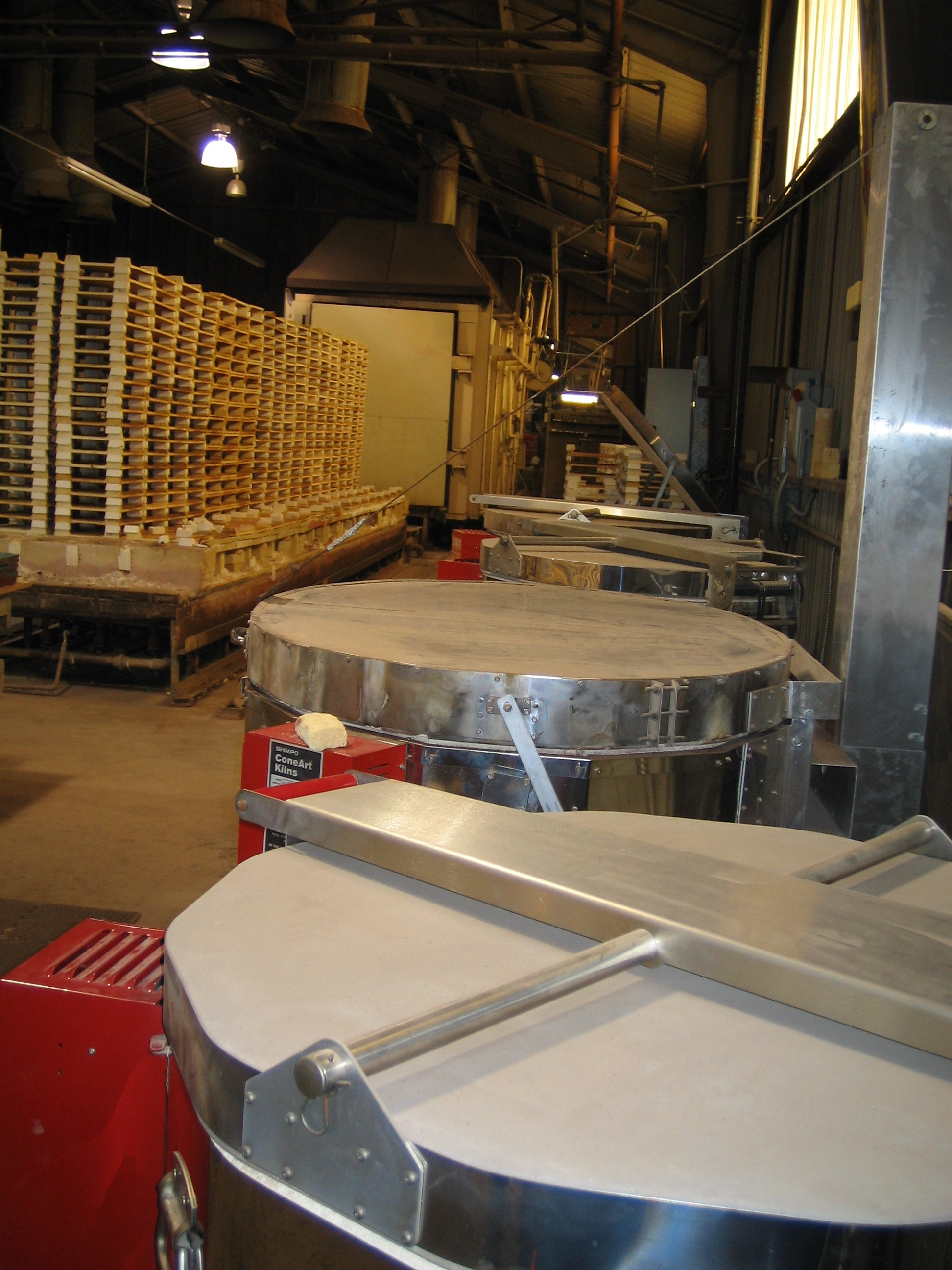 This picture illustrates how Malibu Ceramic Works fabricates its tile for use on floors and as decorative tile. The picture was taken by owners and given to me with permission to use in the Wikipedia article.